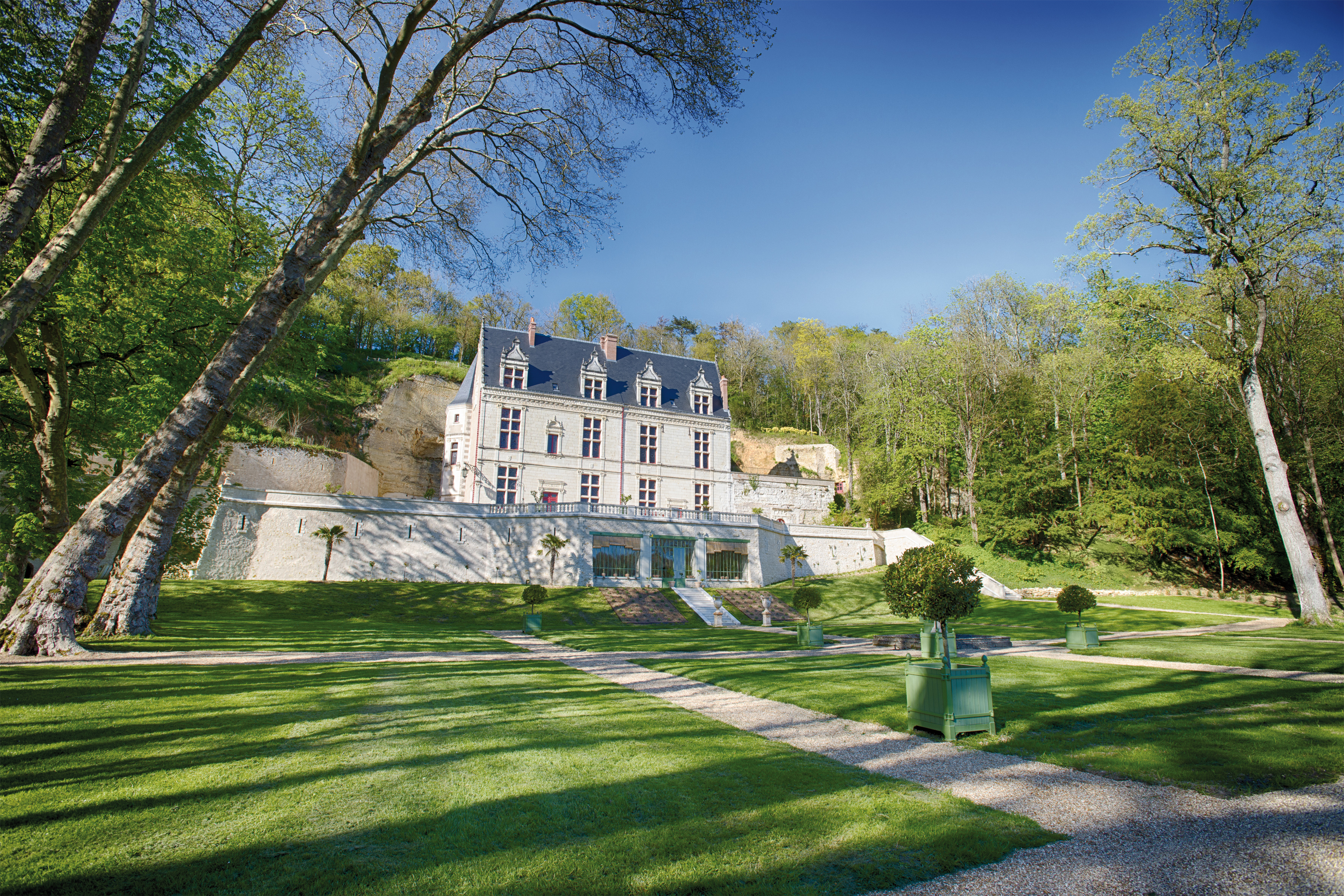 Château-Gaillard Amboise